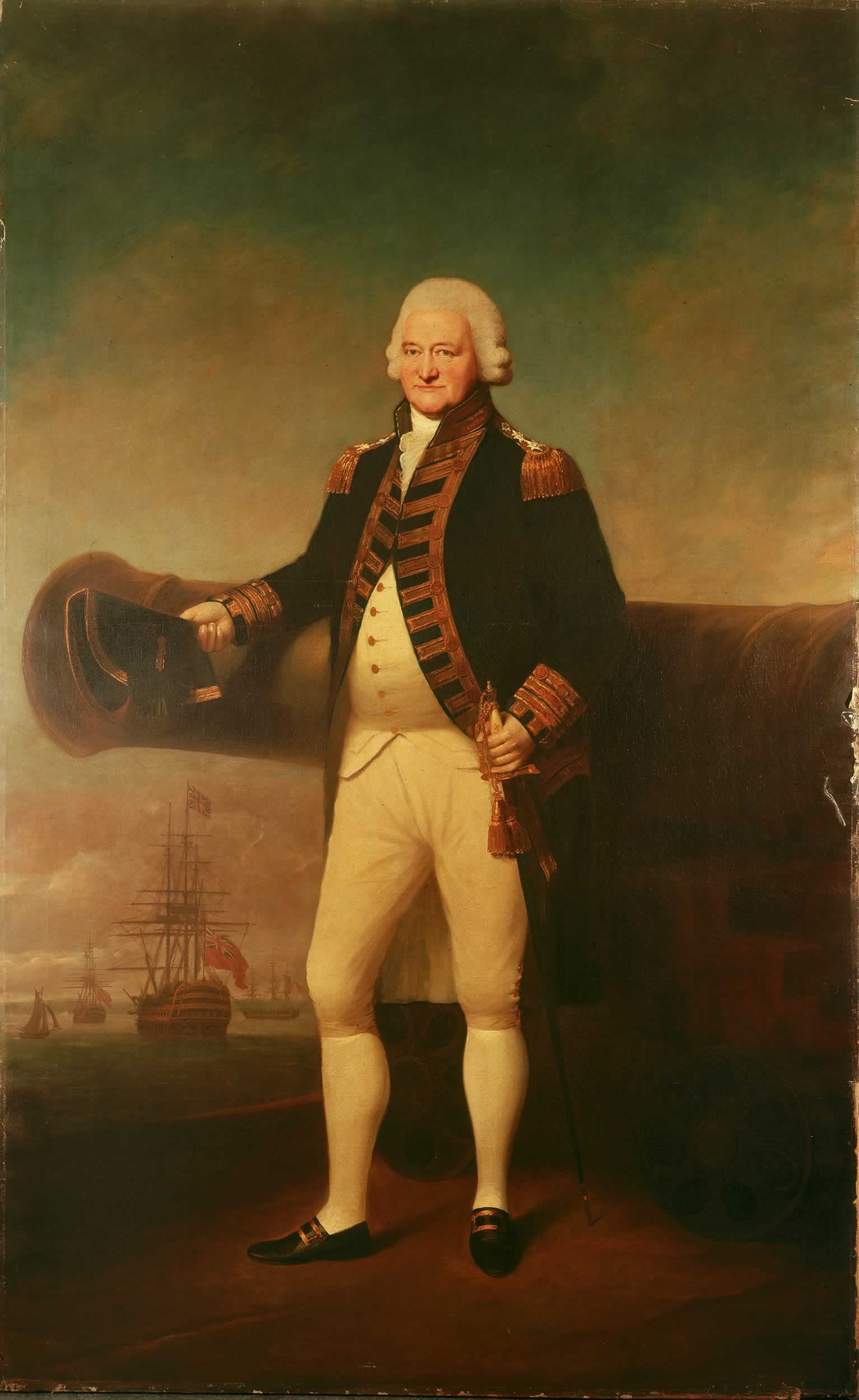 He wears an Admiral's full-dress uniform of 1795-1812, although the cuffs have not been correctly portrayed since they lack the fourth ring necessary for full dress.